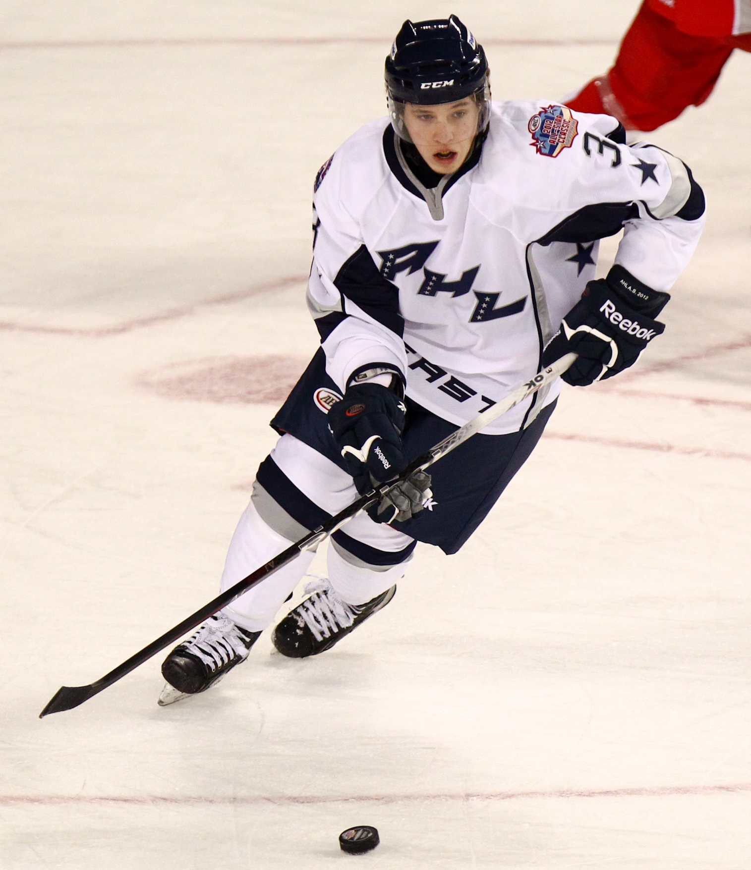 Alexander Urbom, swedish ice hockey player